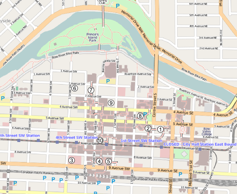 This is an inaccurate map showing the locations of the 10 largest buildings in Calgary as of August 2009. The map itself is exported from the Open Street Map Project and the numbers are added with Inkscape (then exported as PNG). The ten buildings are: 1: Suncor Energy Centre - West - 150 6 Avenue SW - 215 m (705 ft) 2: Bankers Hall - West - 888 3 Street SW - 197 m (646 ft) 3: Bankers Hall - East - 855 2 Street SW - 197 m (646 ft) 4: Canterra Tower - 400 3 Avenue SW - 177 m (581 ft) 5: TransCanada Tower - 450 1 Street SW - 177 m (581 ft) 6: First Canadian Centre - 350 7 Avenue SW - 167 m (548 ft) 7: Western Canadian Place - North - 707 8 Avenue SW - 164 m (538 ft) 8: TD Canada Trust Tower - 421 7 Avenue SW - 162 m (531 ft) 9: Scotia Centre - 700 2 Street SW - 155 m (509 ft) 10: Nexen Building - 801 7 Avenue SW - 153 m (502 ft)